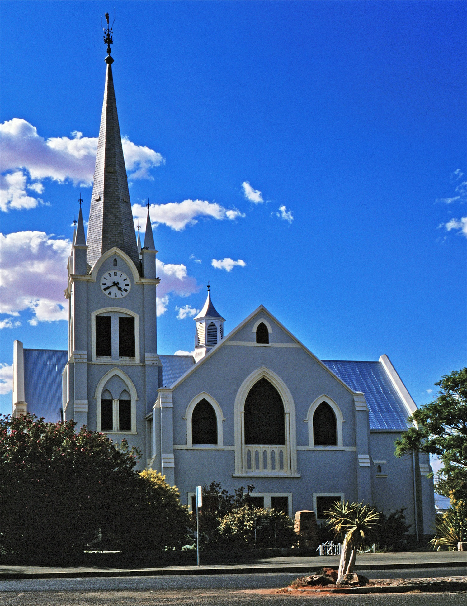 This media shows a South African Protected Site with SAHRA file reference 9/2/032/0019.